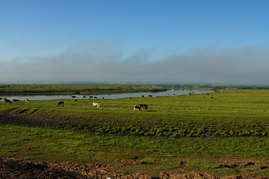 The Argun River near Tuanjie Yicun